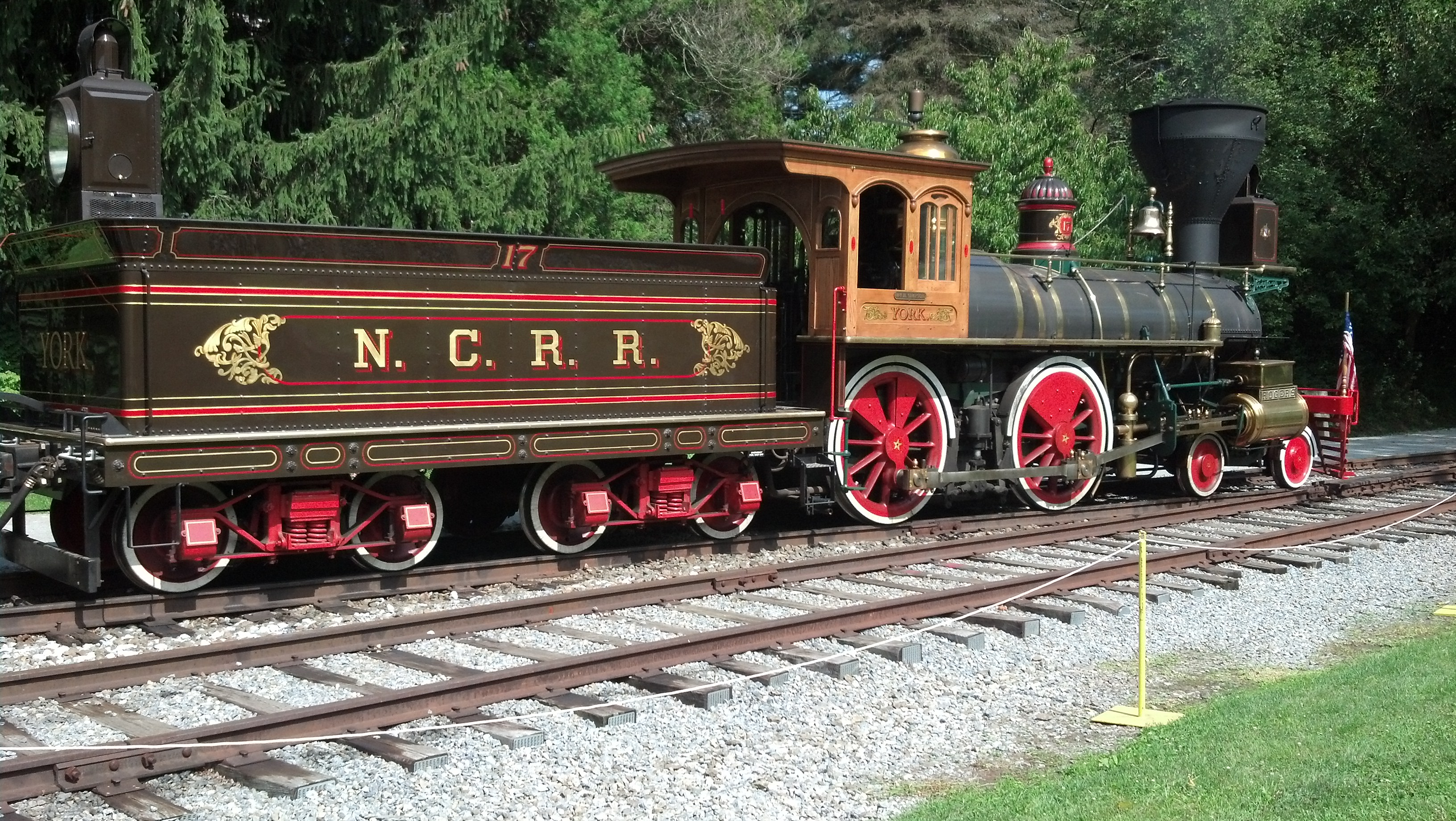 Engine and Coal Car for Steam into History at Hanover Junction Station, Pennsylvania, 2013. Train runs on recycled oil, however, not coal.